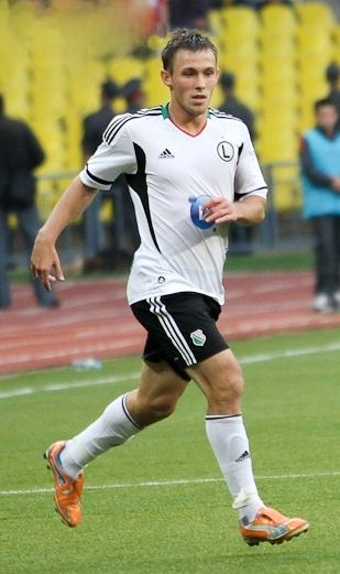 Association football player Maciej Rybus from Poland during UEFA Europa League qualification match between Legia Warszawa and Spartak Moscow at Luzhniki Stadium.